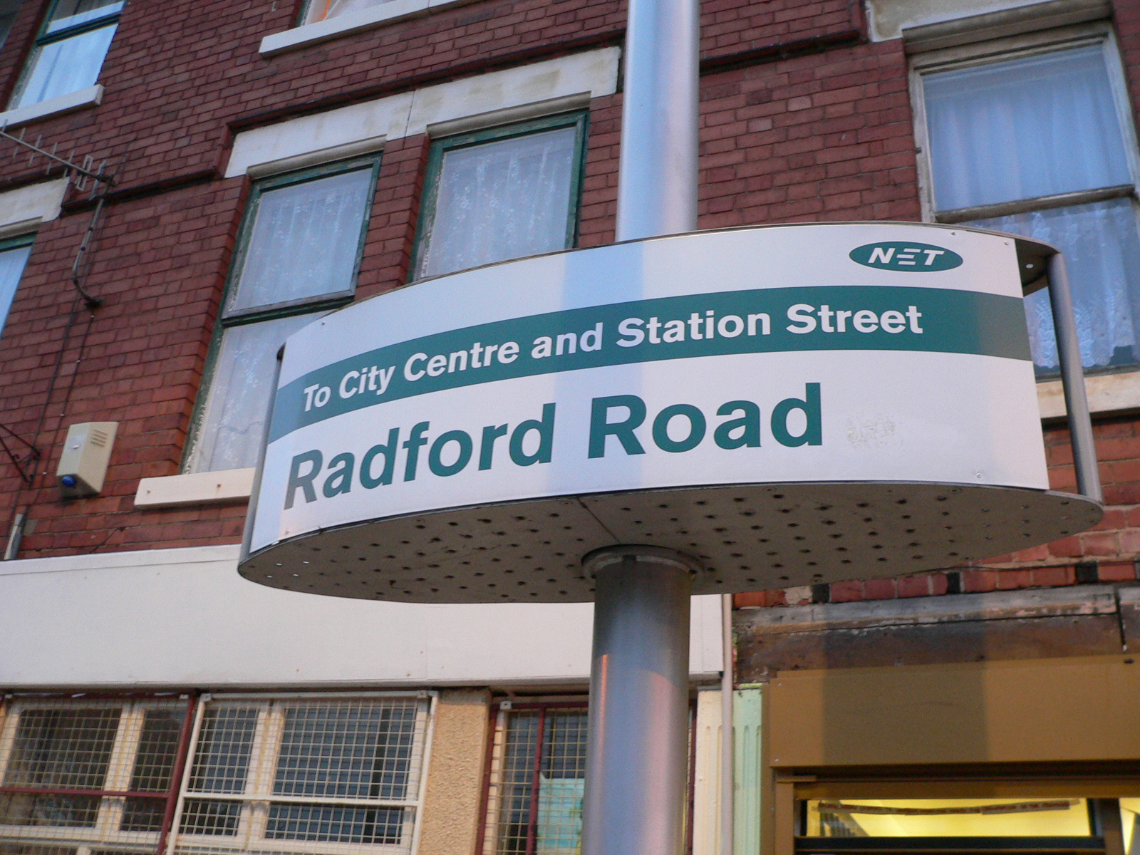 The Nottingham Express Transit (NET) tram stop sign at the Radford Road stop is typical of those at all the stations on the system.